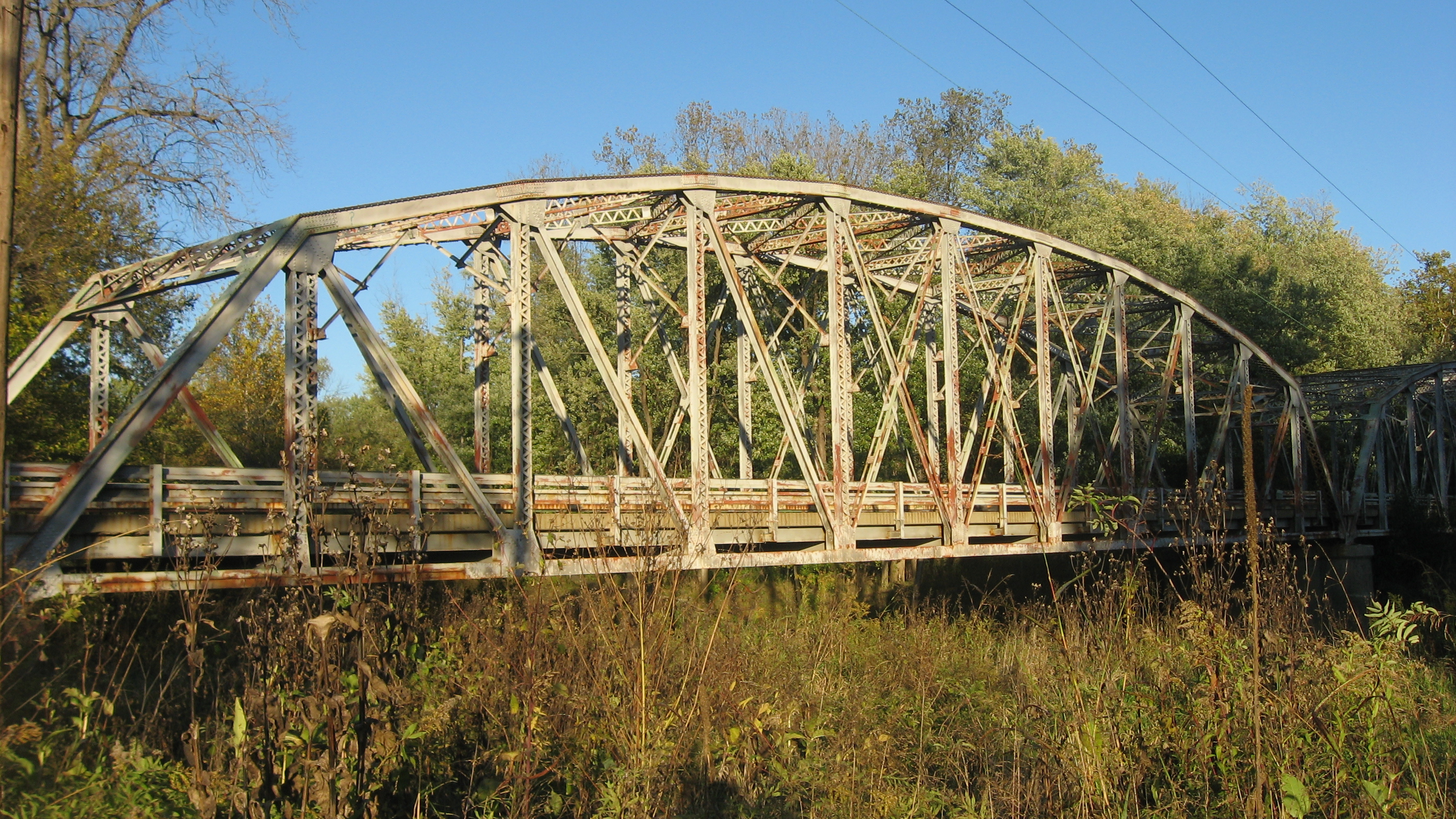 Southern (downstream) side and western portal of the Indiana State Highway Bridge 46-11-1316, which carries State Road 46 over the Eel River west of Bowling Green in Washington Township, Clay County, Indiana, United States. Built in 1939, it is listed on the National Register of Historic Places.